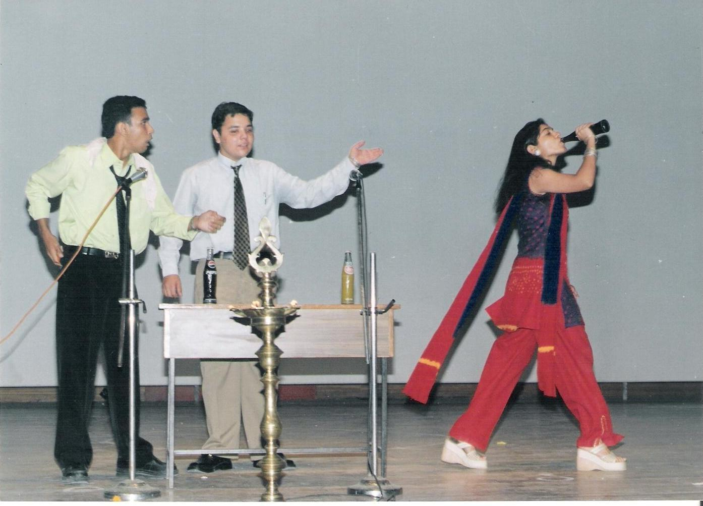 Teacher's Day being celebrated in the School Auditorium. Students can be seen here acting out a skit.